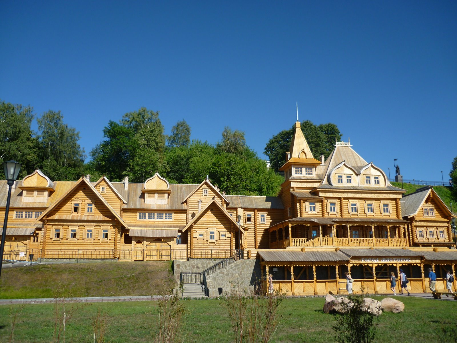 Master town in Gorodets